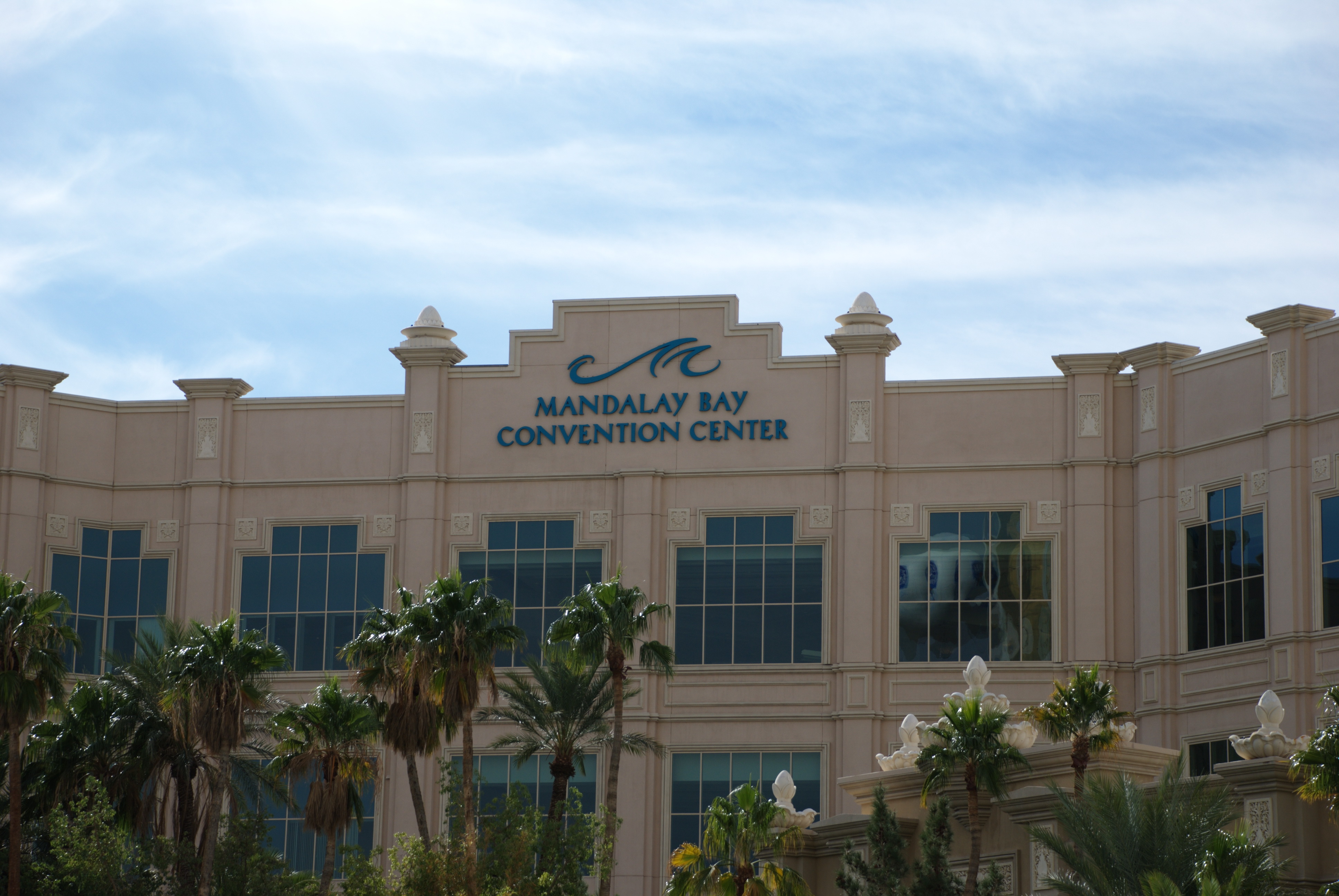 Picture of Mandalay Bay Convention Center